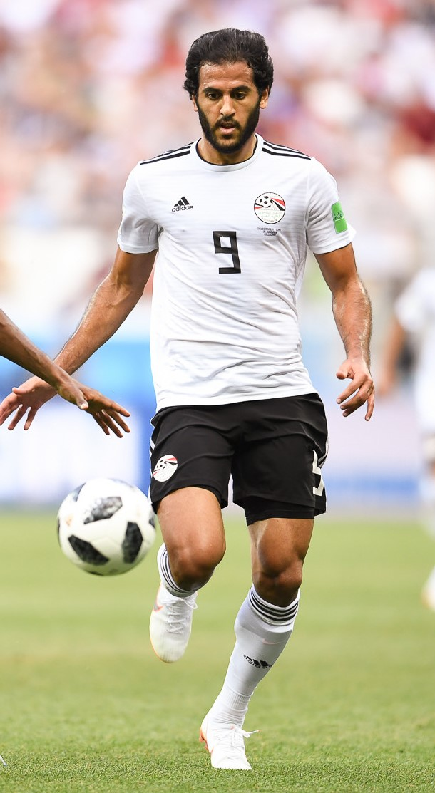 Marwan Mohsen